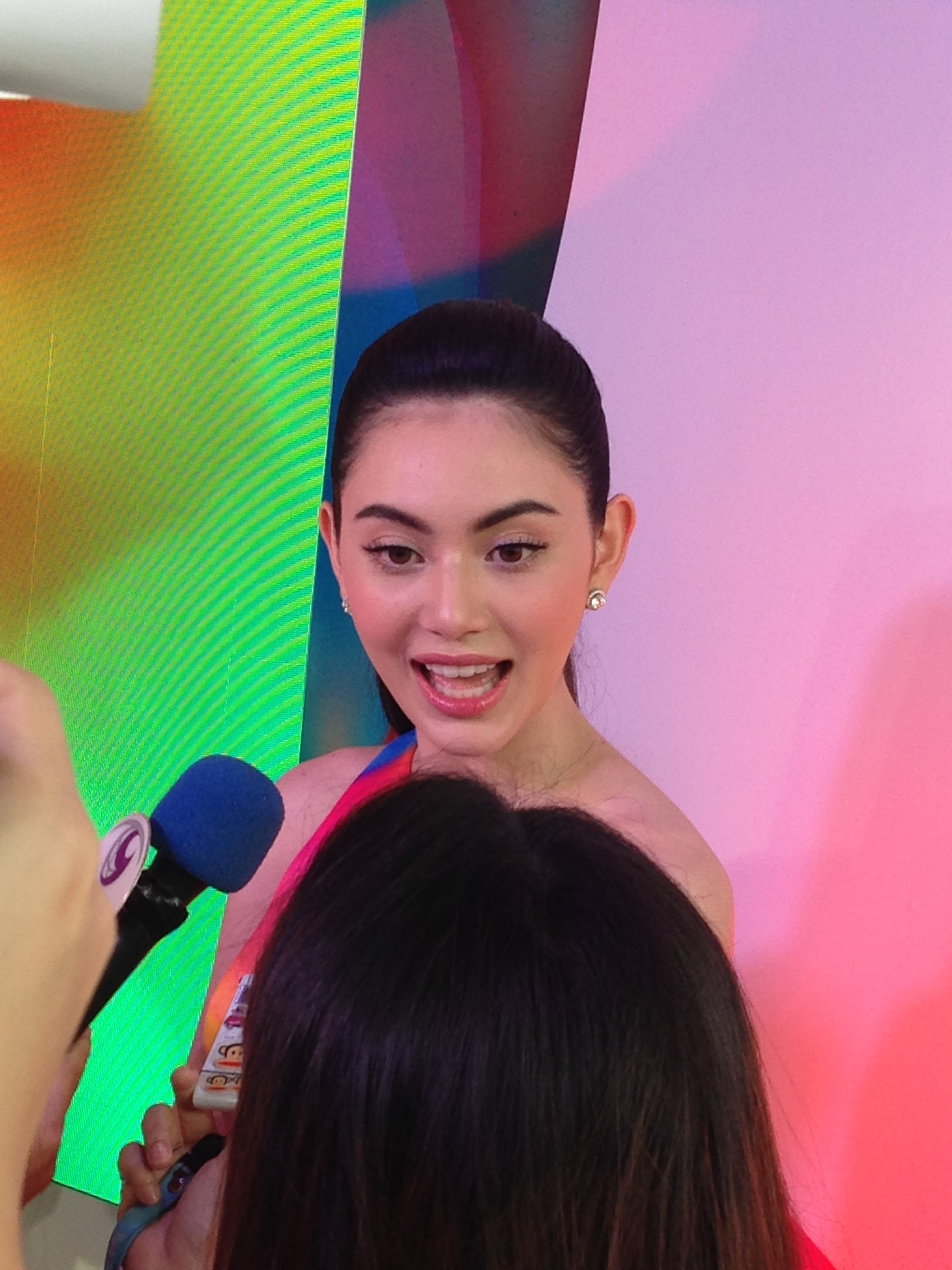 Davika Hoorne at Emquartier.